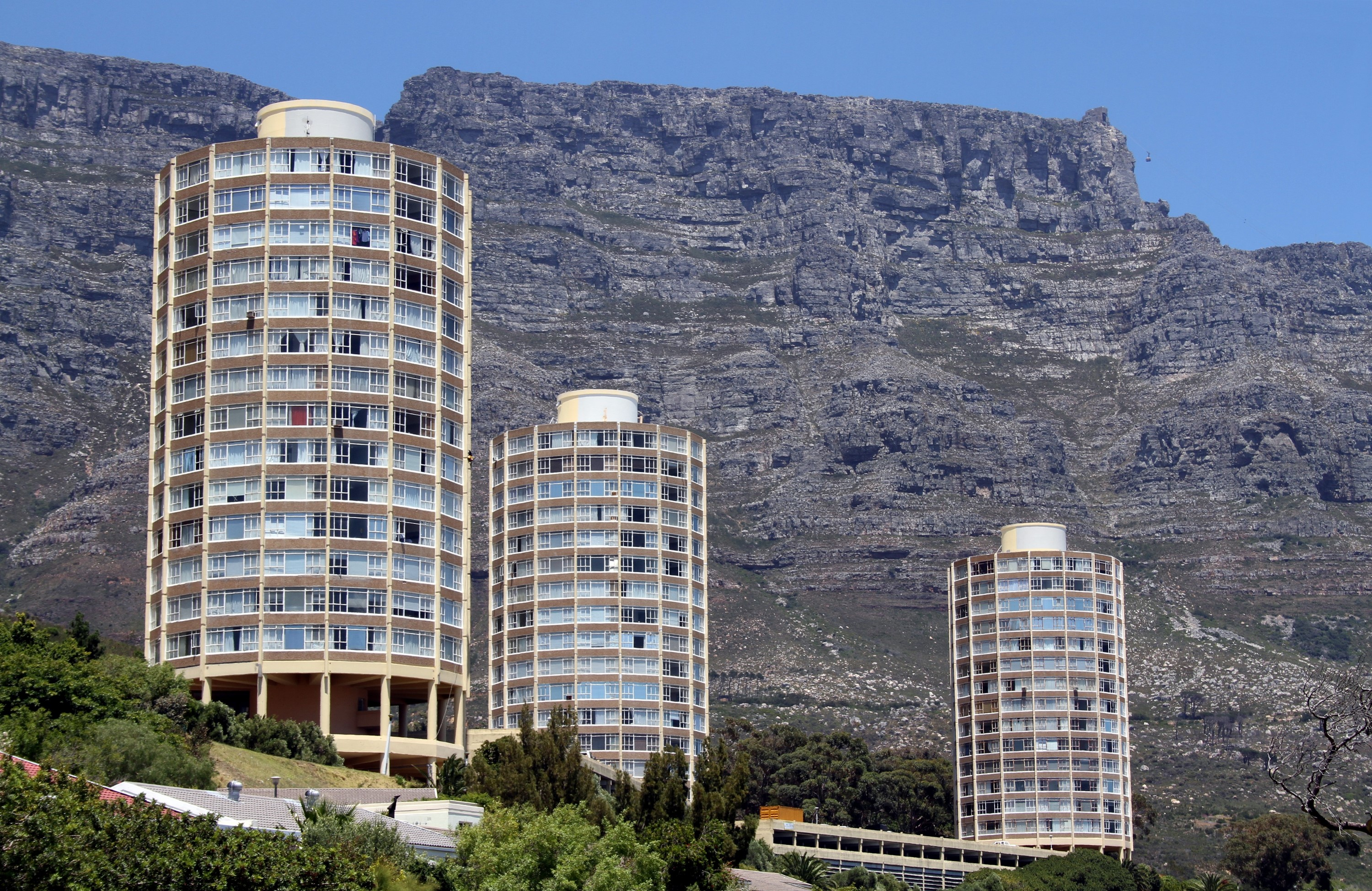 Disa Park from Chelmsford Avenue, Vredehoek